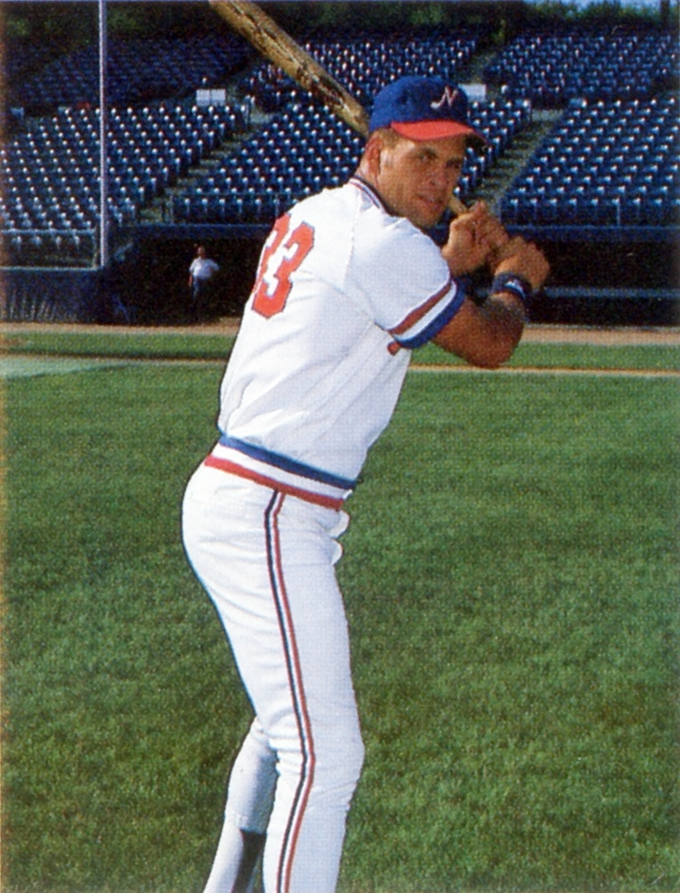 Catcher Dwight Lowry of the 1985 Nashville Sounds Minor League Baseball team of the American Association